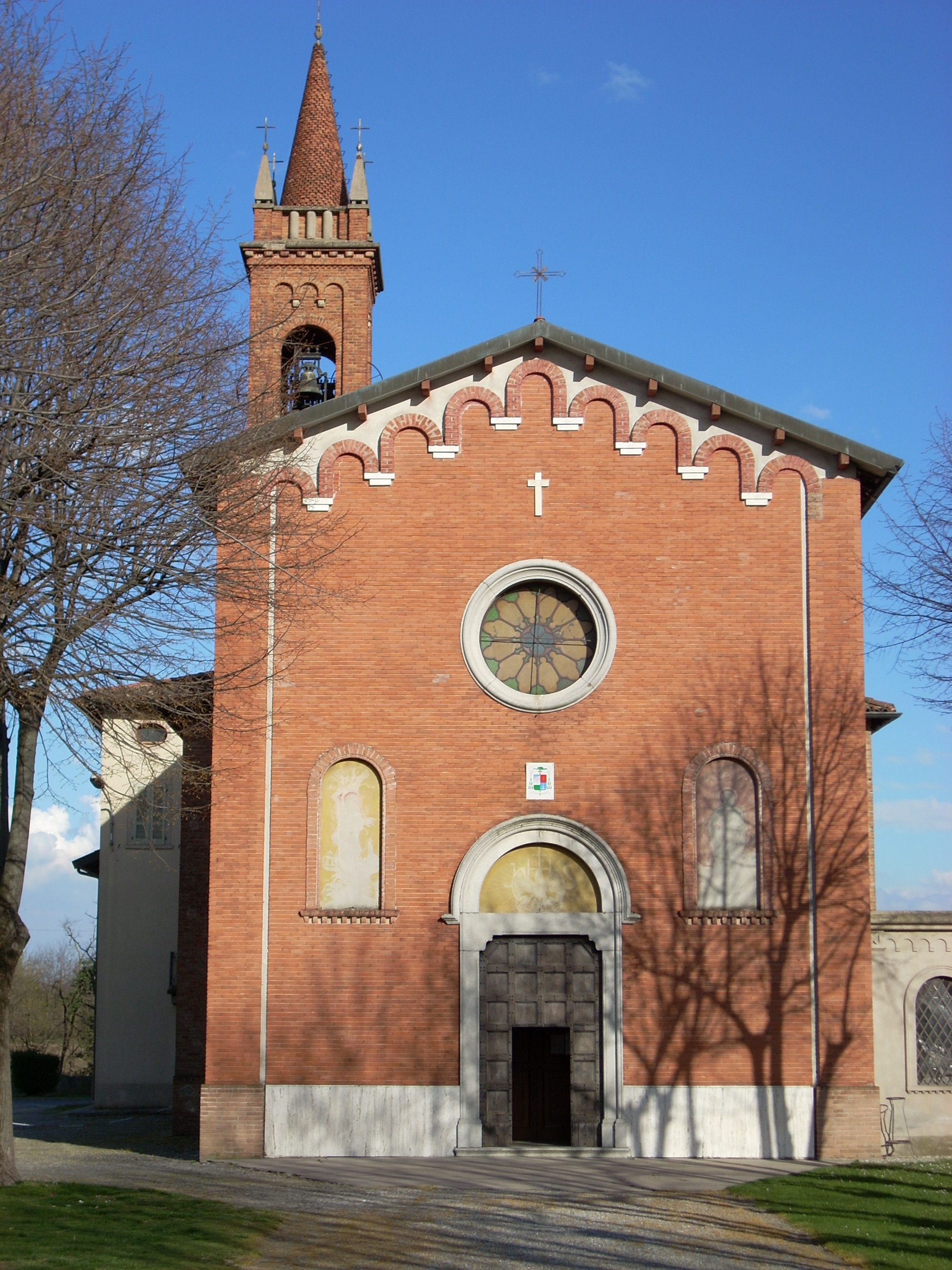 Church of San Bartolomeo, Marne, Filago, Italy